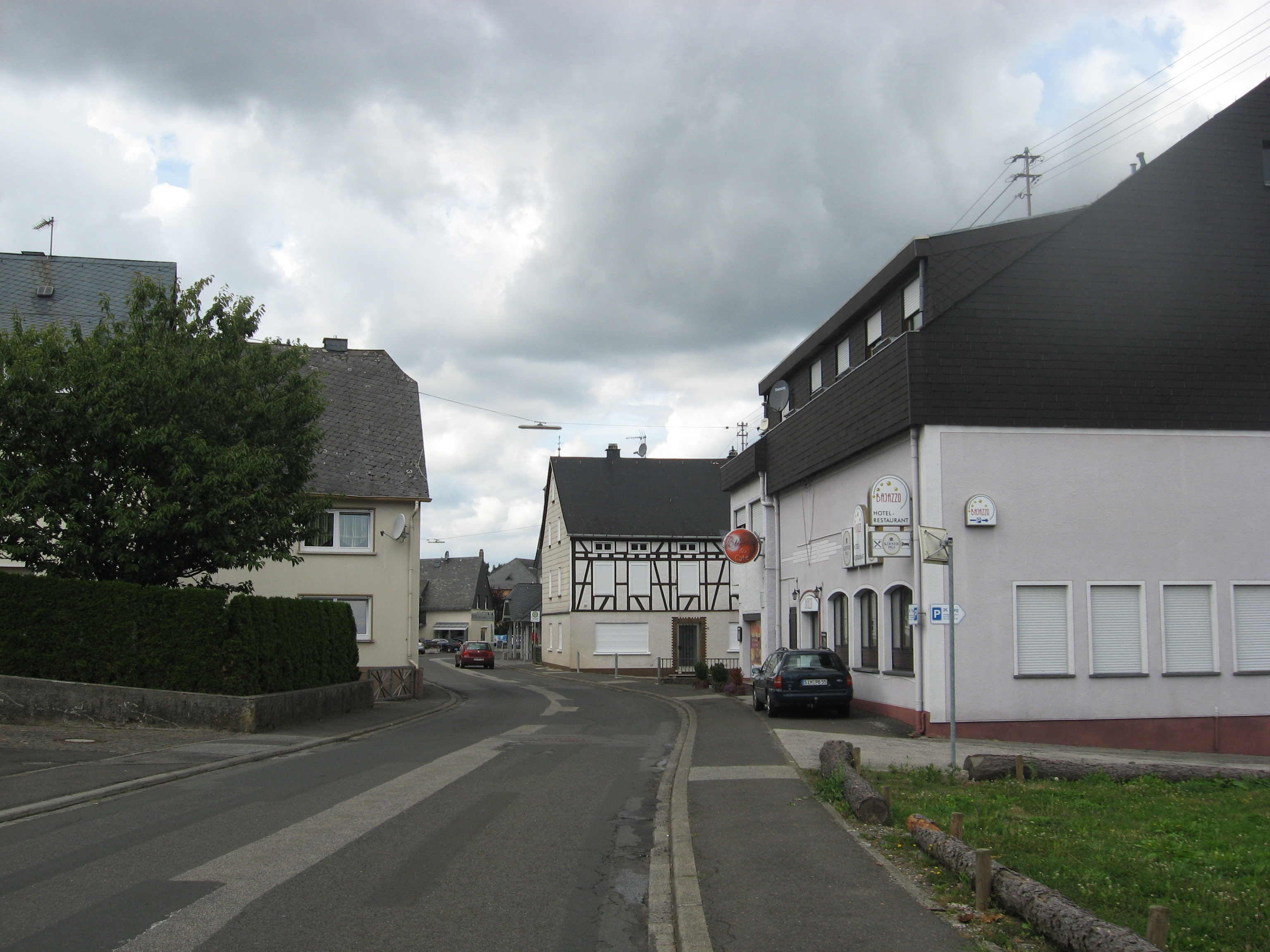 Main street village Lautzenhausen in the Hunsrück landscape, Germany.